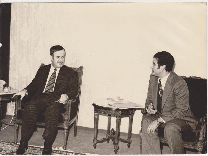 Hafez al-Assad and Bashir al-Rabiti, picture taken sometime between 1972 and 1977